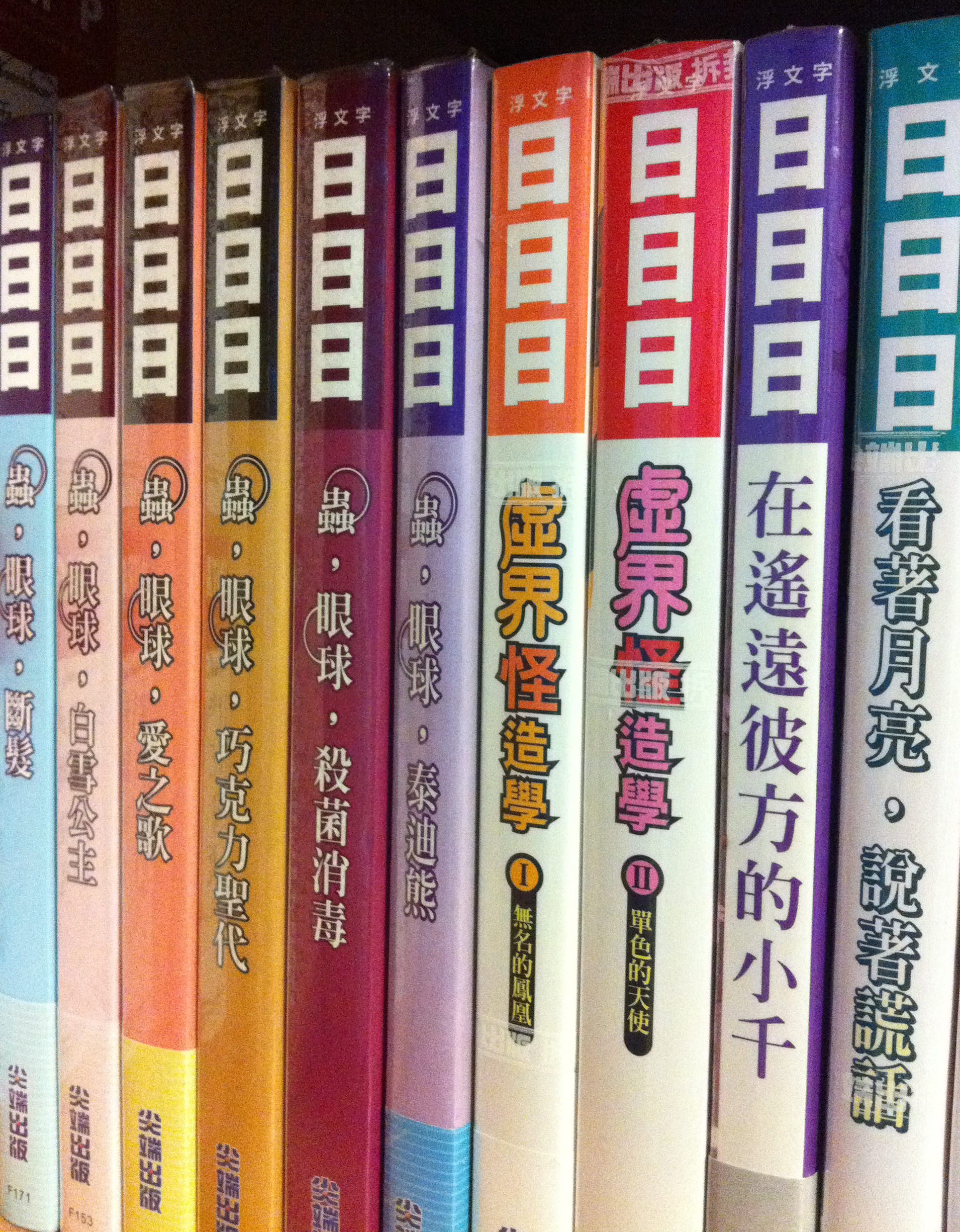 Taiwan Chinese edition of Akira's light novels published by Sharp Point Press.